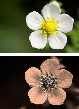 Spectral comparison of a Wild Strawberry (Fragaria vesca) flower in reflected visible light (top), ultraviolet light (bottom). The flower has a clear UV nectar guide pattern, with the petals appearing darker at the base in ultraviolet. The centre of the flower also appears much darker in ultraviolet.